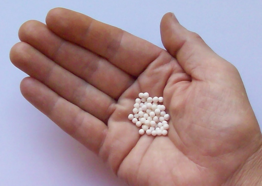 Pearl tapioca, before soaking. This is high quality pearl tapioca:) uniform shape and size, even color, smooth, unbroken. This is so-called "small pearl" tapioca. It is also made from very highly refined tapioca starch, hence the very white color.